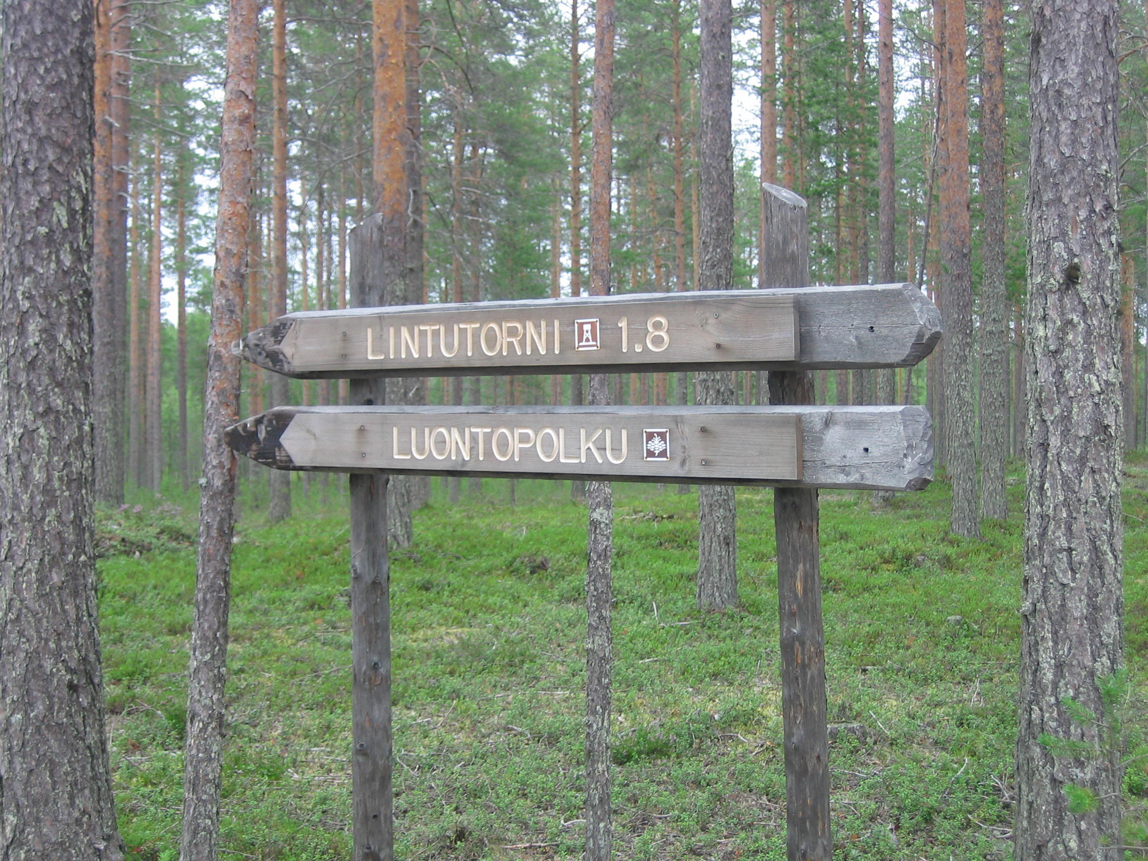 Sign posts towards Olvassuo marshland at Kirkaslampi, in Juorkuna, Utajärvi (Finland)